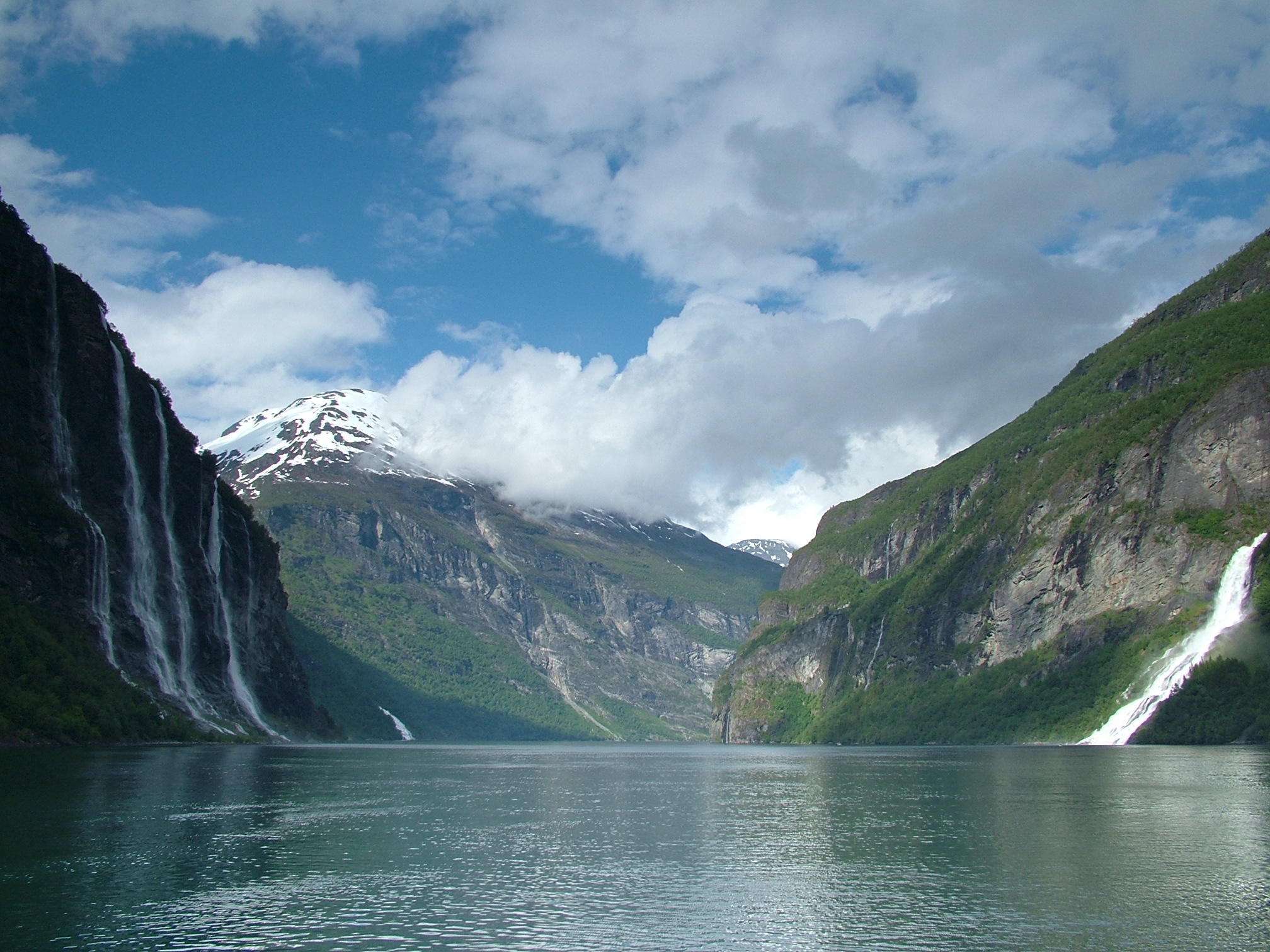 The Seven Sisters & the Wooer waterfalls in Geirangerfjord, Norway